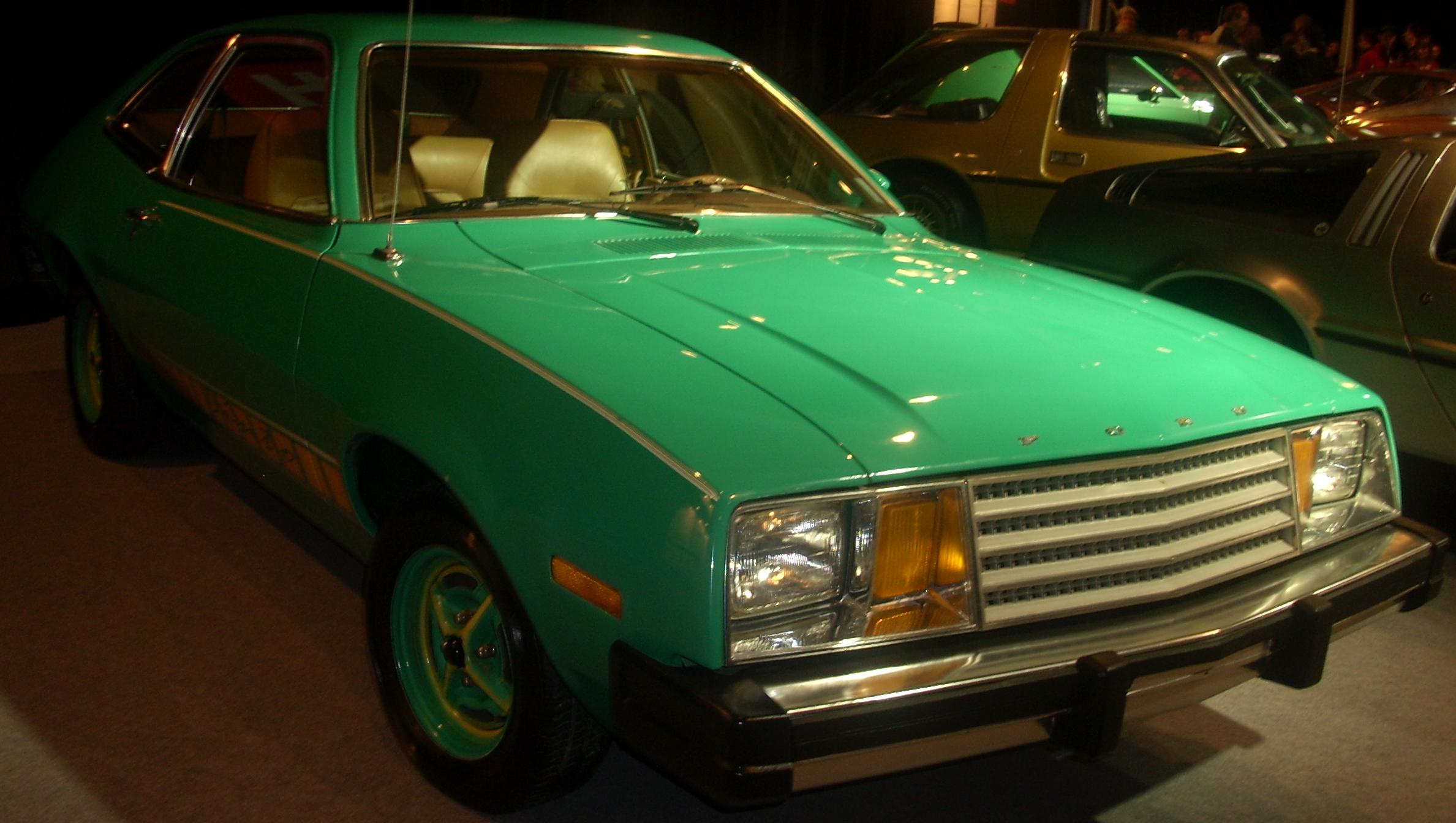 1979 Ford Pinto photographed at the 2009 Montreal International Auto Show.